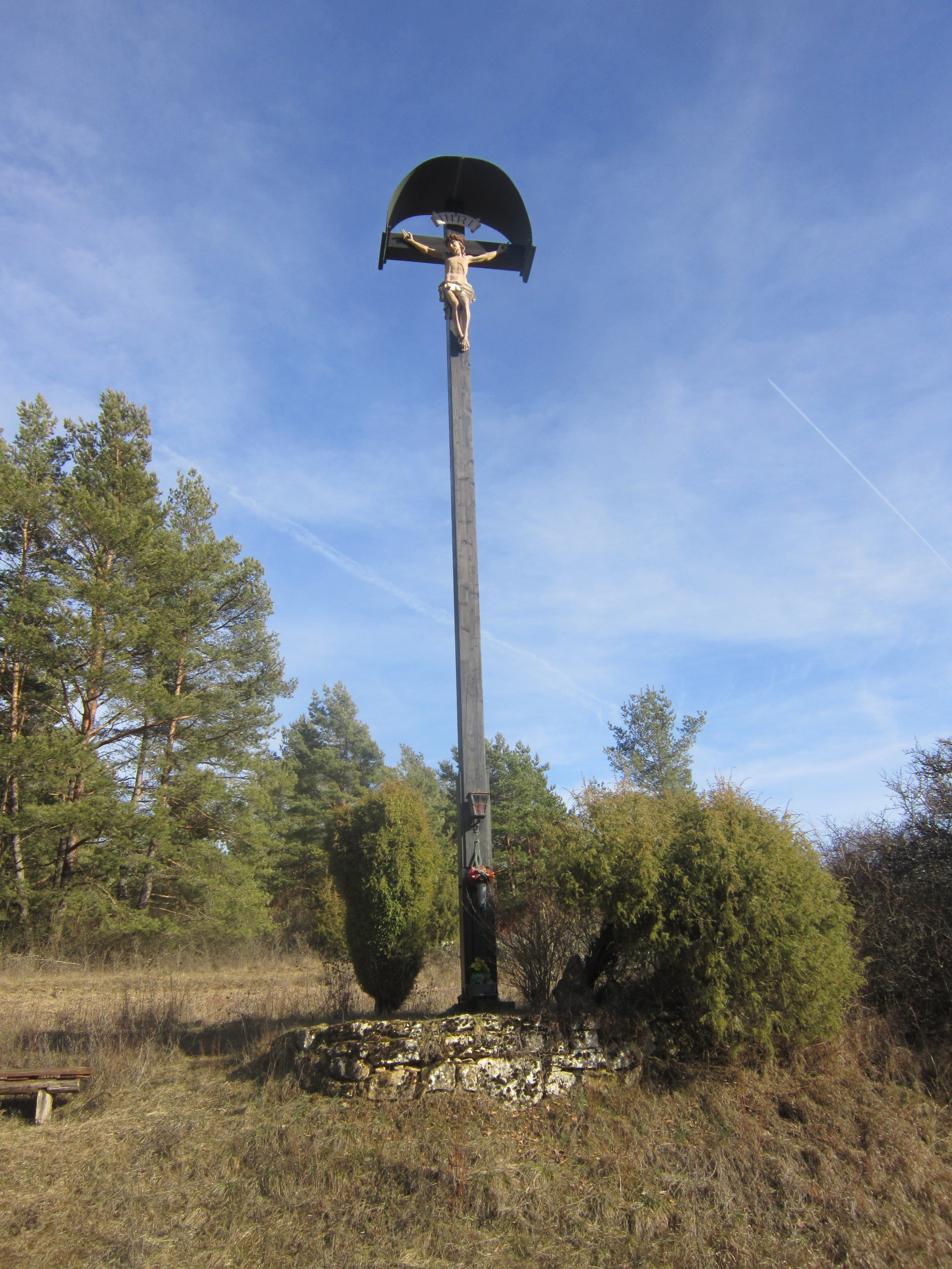 Wayside shrine in Münnerstadt, a German town in Lower Franconia (Bavaria).